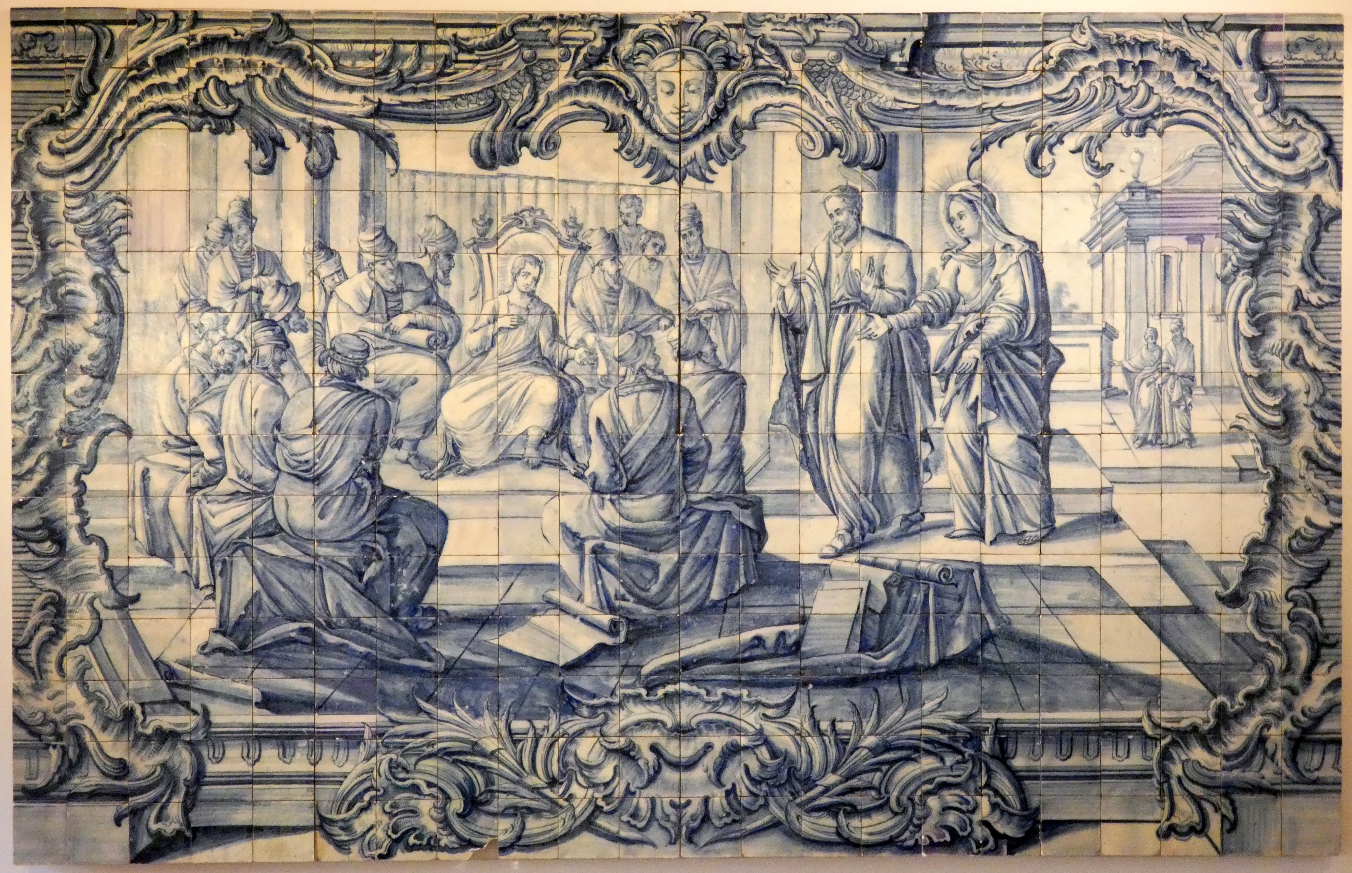 Blue ceramics from Museu Nacional do Azulejo